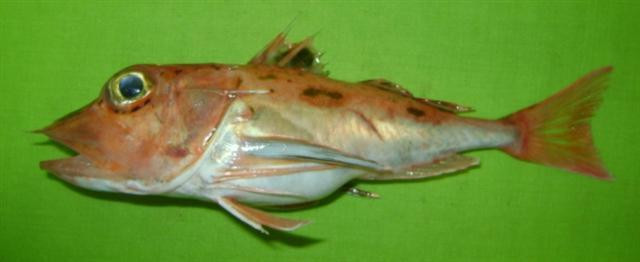 Pterygotrigla arabica from the Indian Ocean